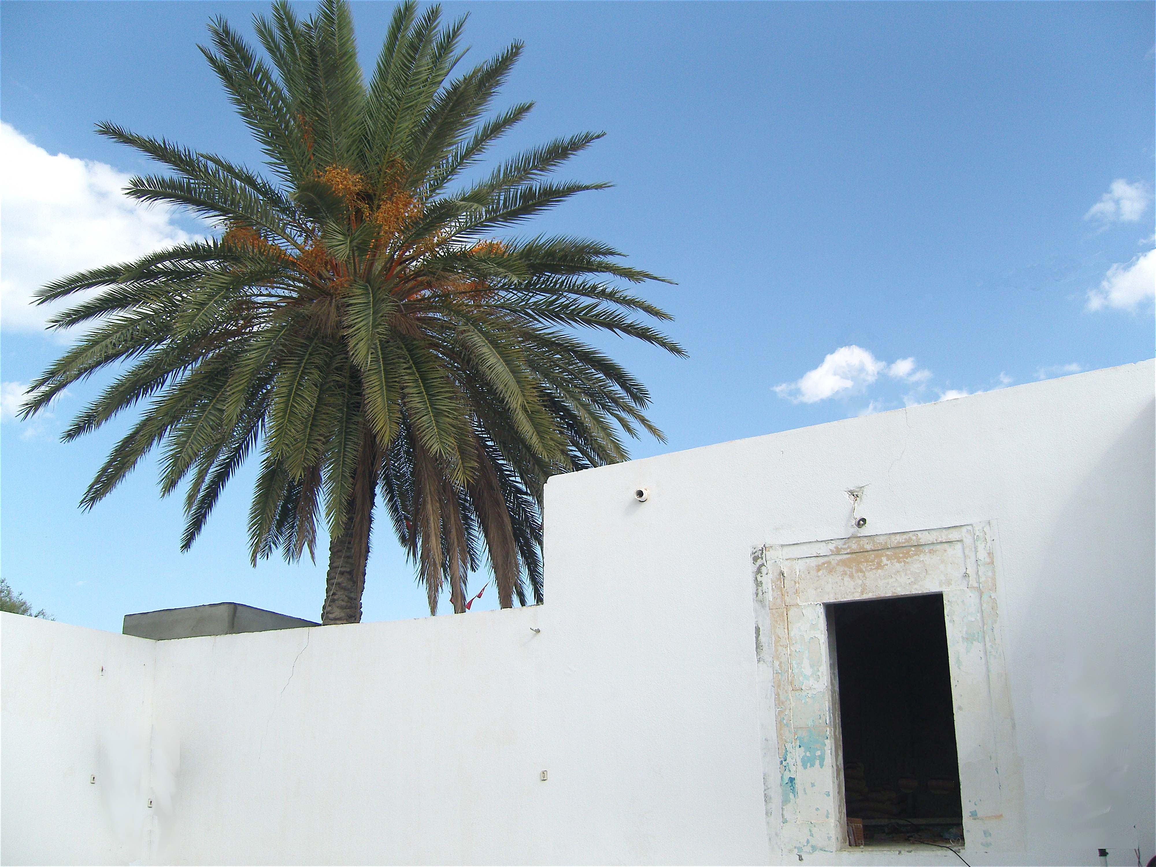 Sidi Ammar in Sayada